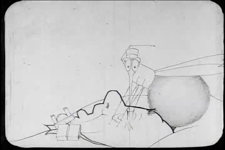 Still from How a Mosquito Operates (1912) by American animator Winsor McCay